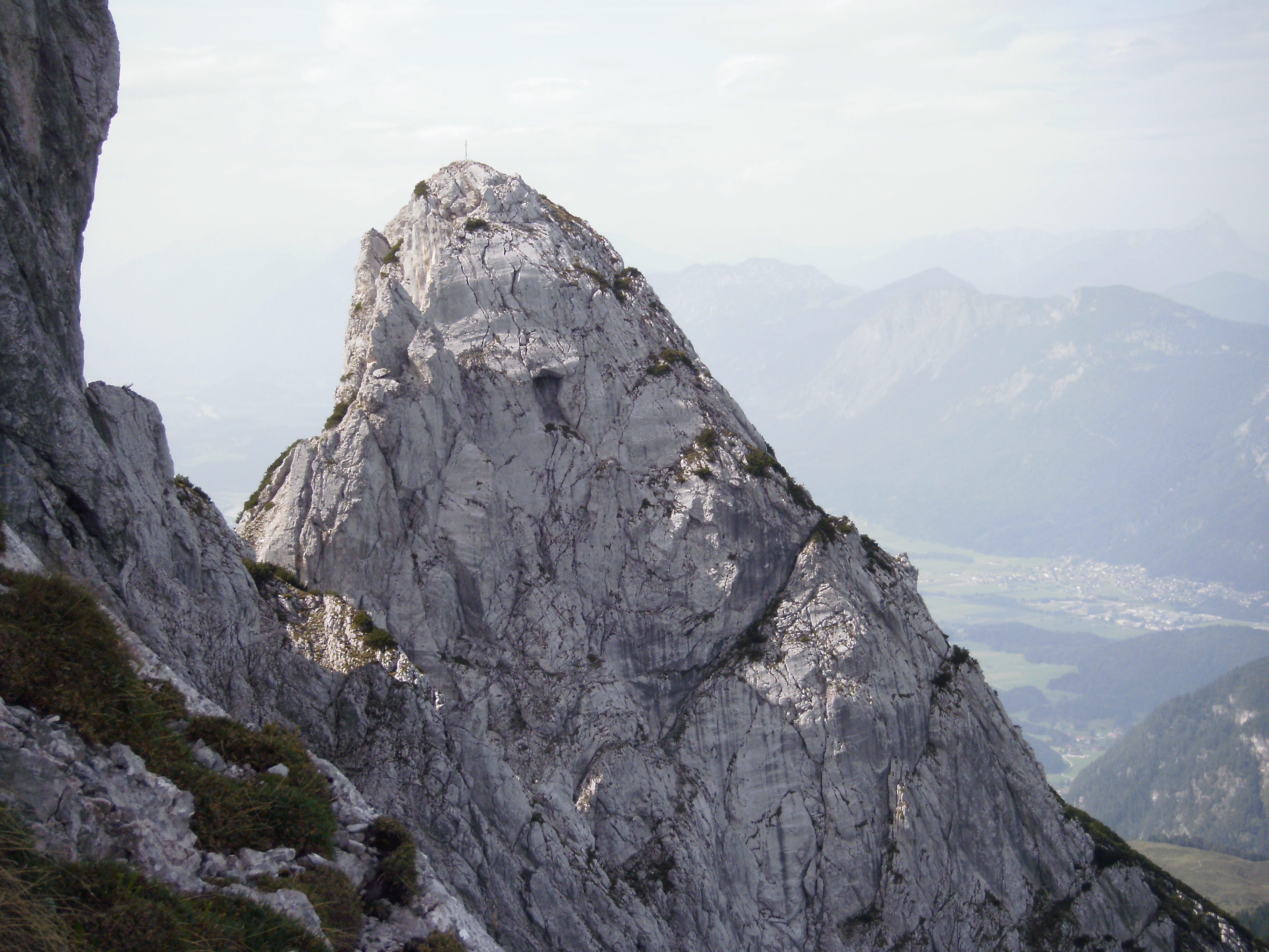 Zettenkaiser from E (Ostlerführe, Scheffauer North face)